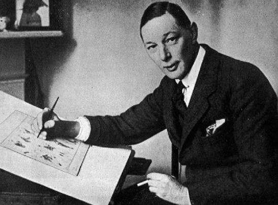 George Ernest Studdy (Davenport, 23 June 1878 - 25 July 1948) British commercial artist